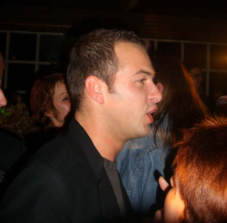 Flemish TV-personality Stan Van Samang, photographed in Wijgmaal at the night of the celebration for his victory on the TV-show "Steracteur Sterartiest".